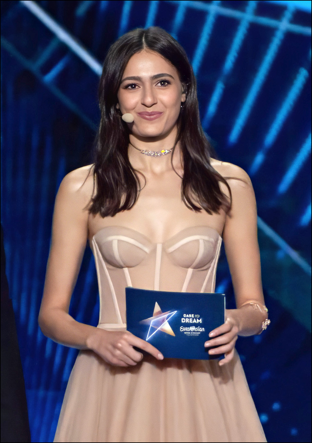 Presenters at the 2019 Eurovision Song Contest Grand Final Dress Rehearsal